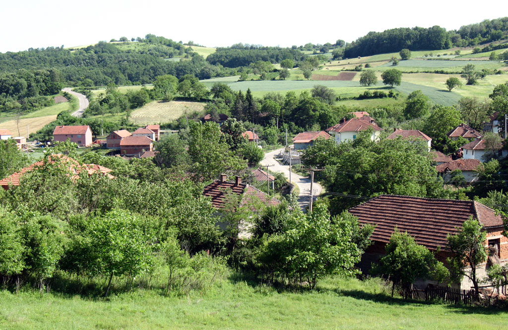 Komarane - panorama